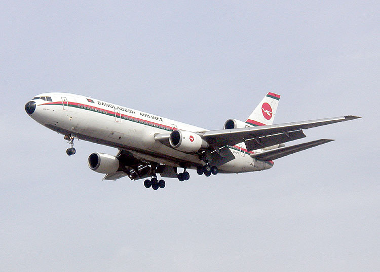 Biman Bangladesh Airlines McDonnell Douglas DC-10-30 (S2-ACR) on the approach to London (Heathrow) Airport (UK).